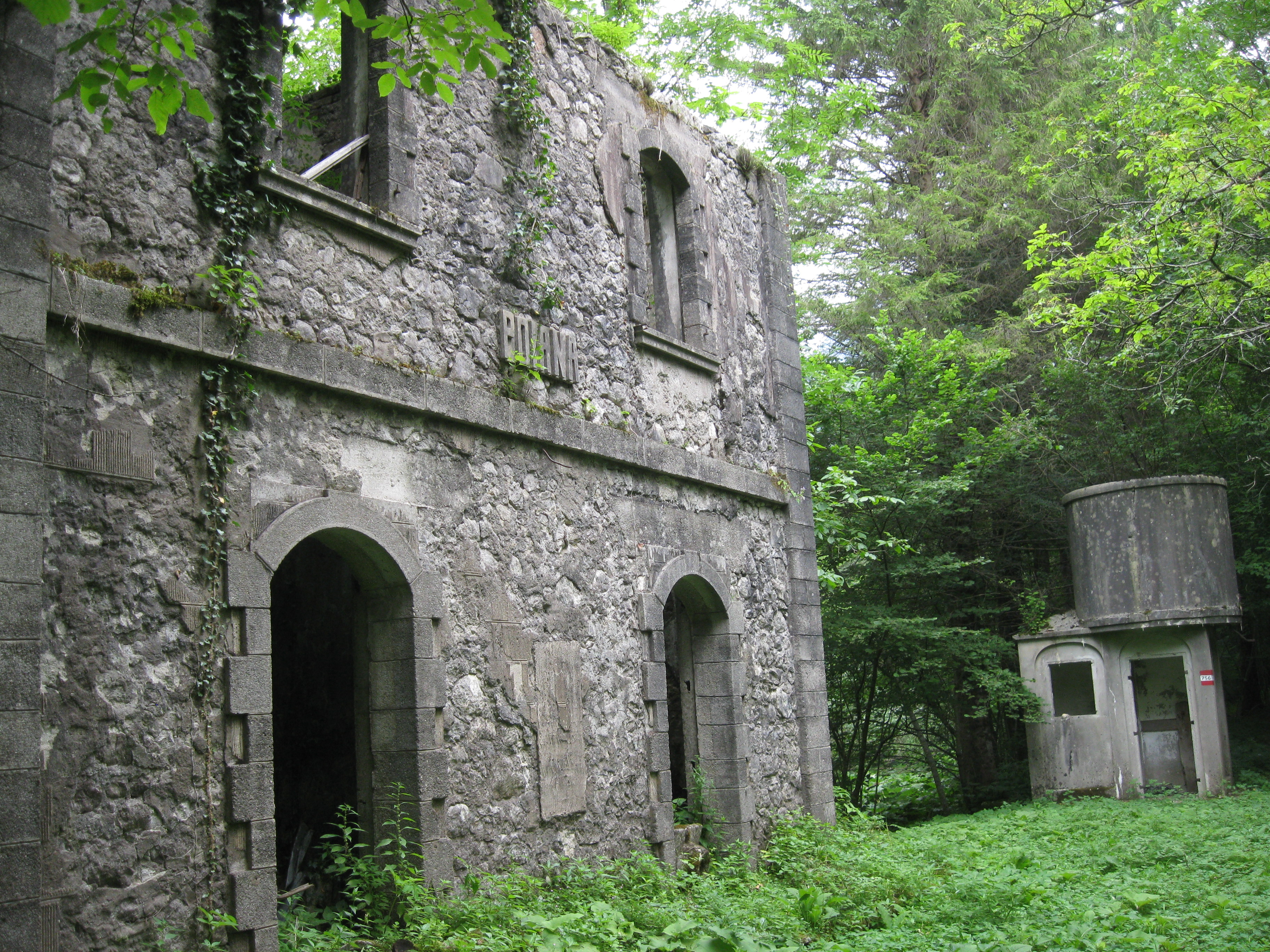 Disused train station in Poiana, Italy